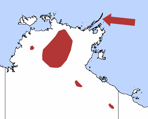 The Sandstone Dibbler's Distrobution.